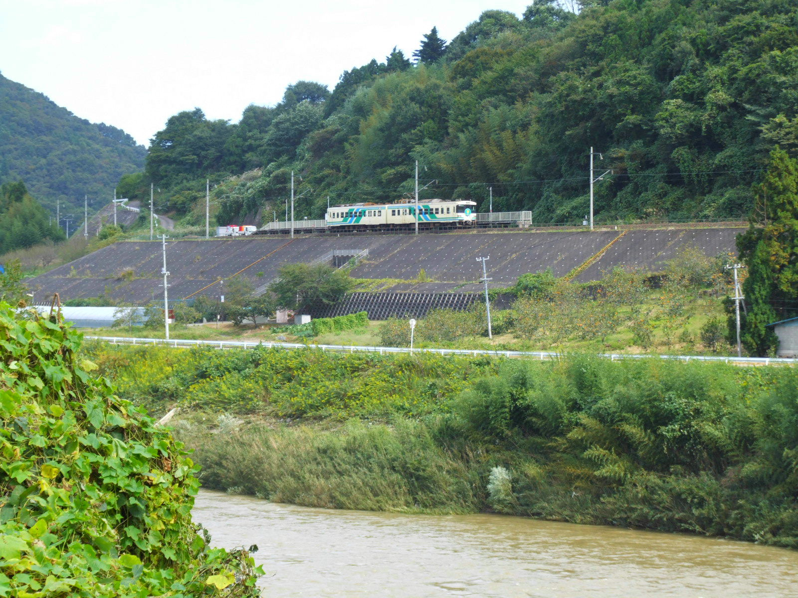 Kabuto Station of Abukuma Kyuko and Abukuma River, in Date, Fukushima, Japan)